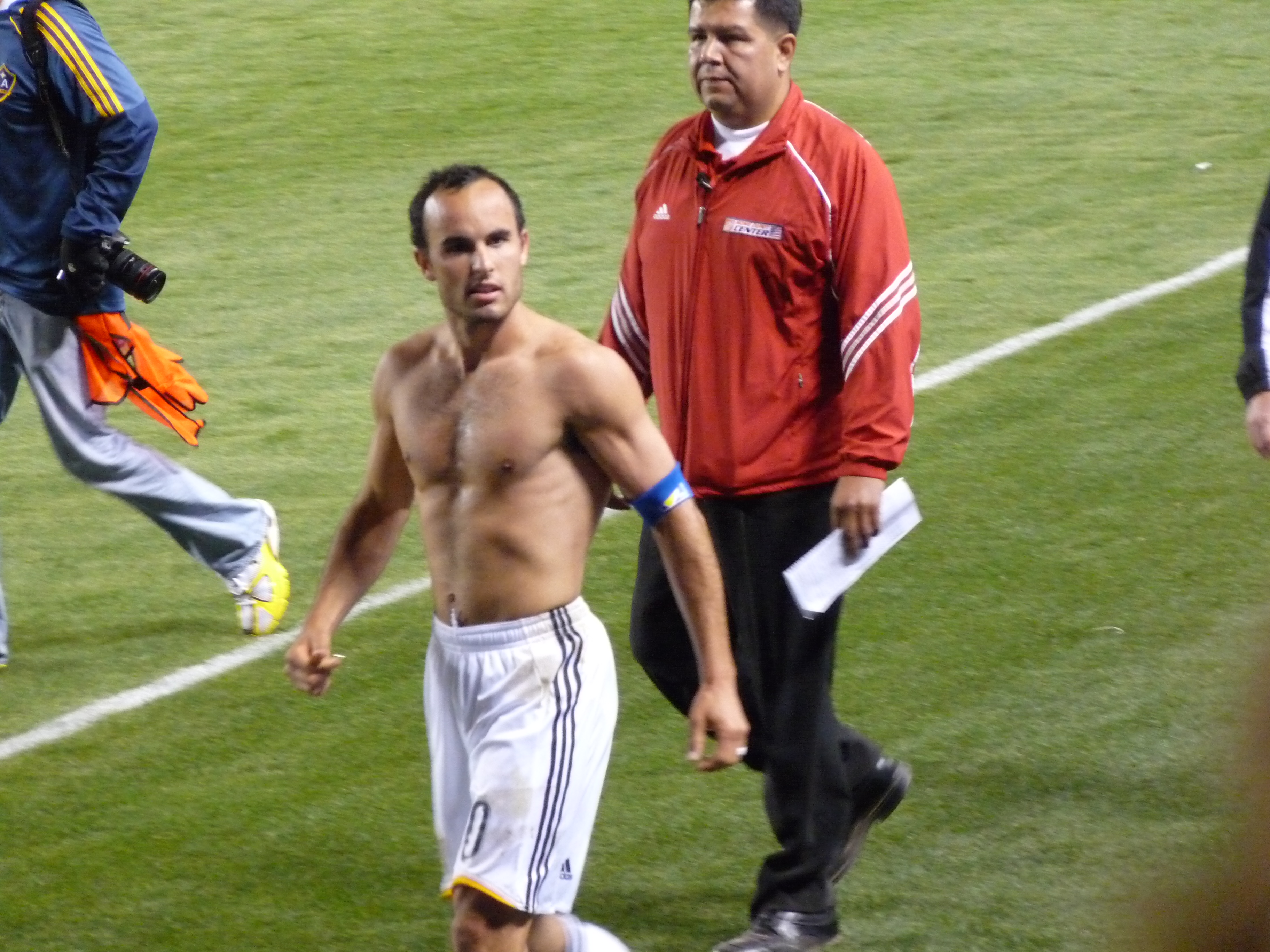 Landon Donovan after a match